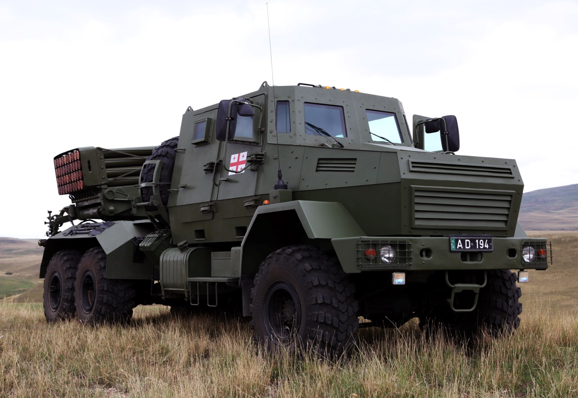 georgian made MLRS DRS-122